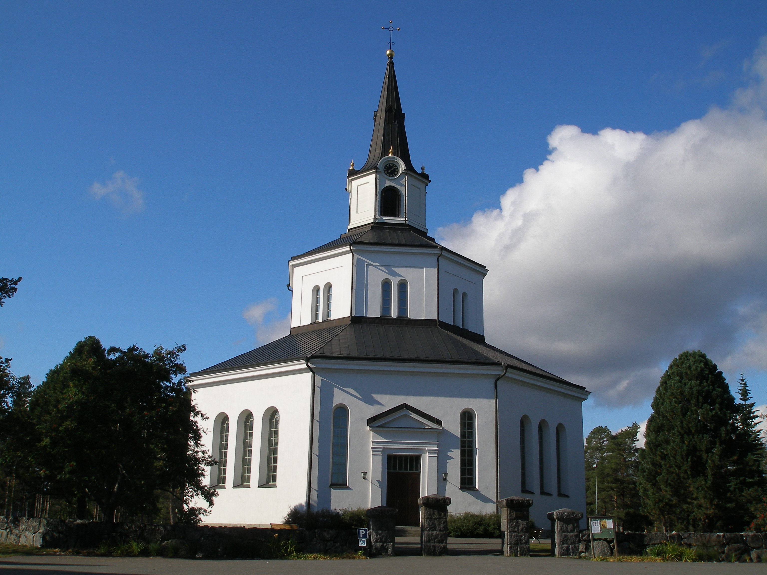 Byske church in Byske, Skellefteå municipality.